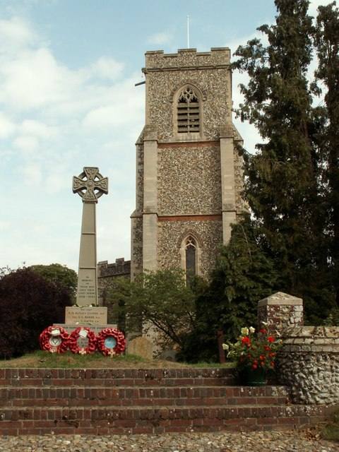 War memorial and St Peter's parish church, Thurston, Suffolk, seen from the west